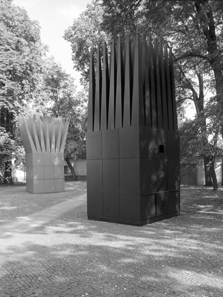 John Hejduk: Dům sebevraha a Dům matky sebevraha (The House of the Suicide and the House of the Mother of the Suicide), Pražský hrad.